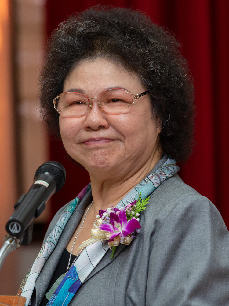 Chen Chu attended the inauguration ceremony in the Control Yuan.